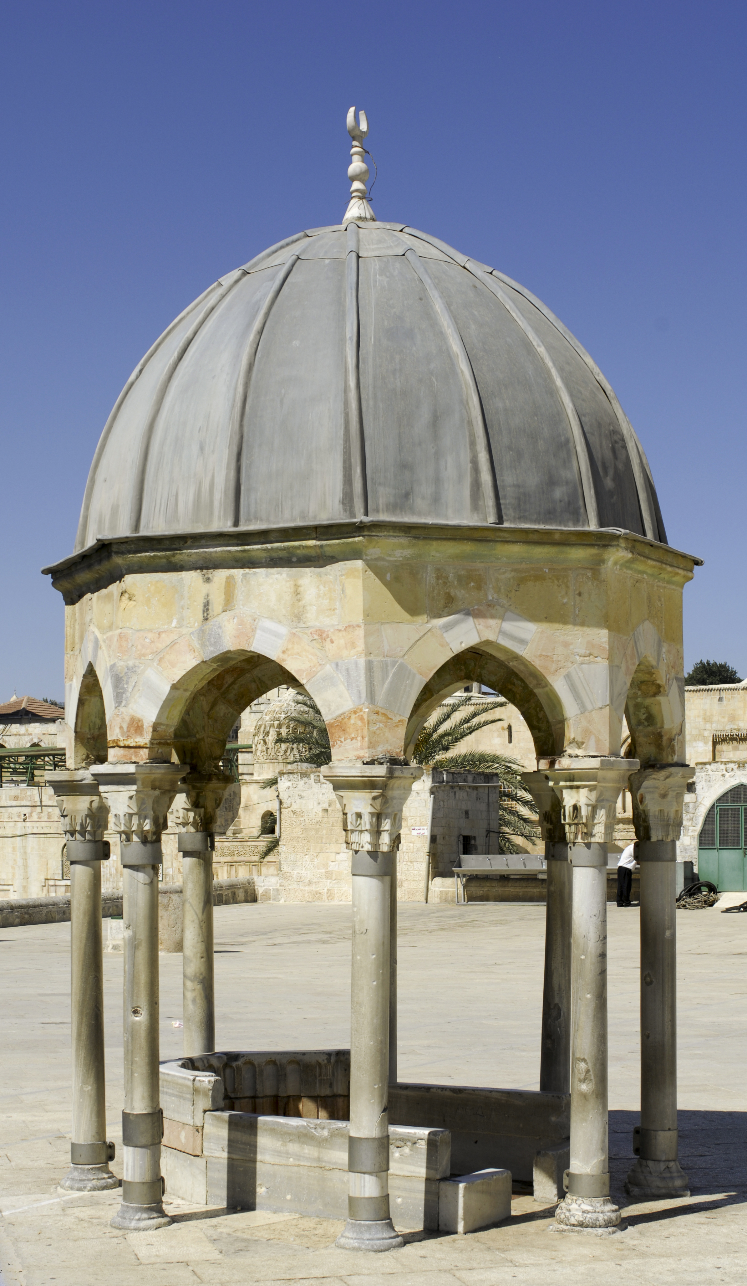 The Dome of the Prophet (Arabic: فبة النبي), also known as the Dome of Gabriel, is located on the Temple Mount in the Old City of Jerusalem.